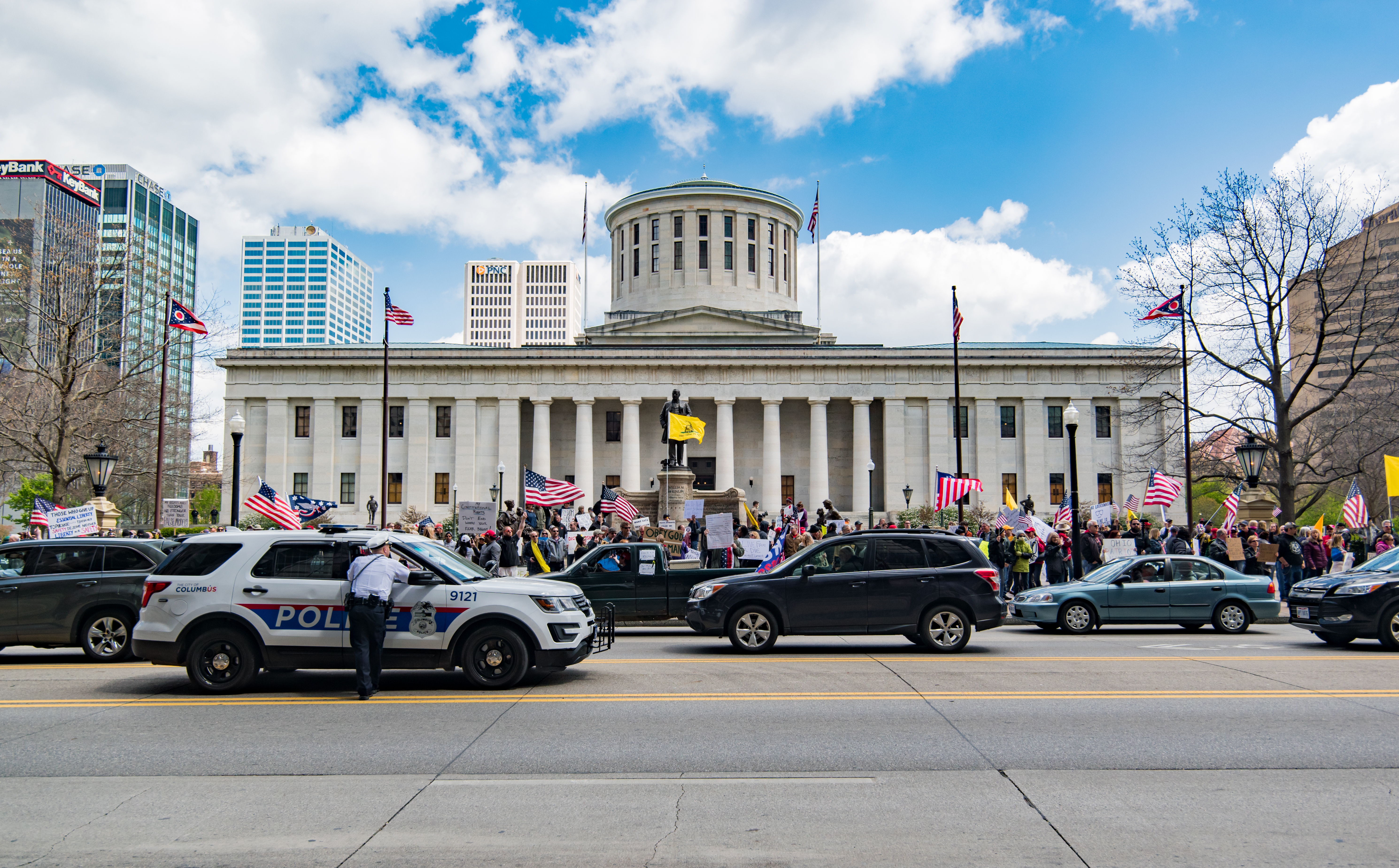 Columbus coronavirus protests at the Ohio Statehouse, 2020-04-18.